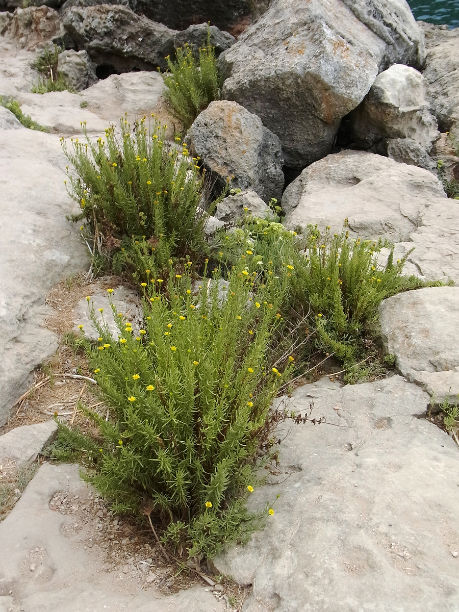 Limbarda crithmoides, Cales Coves, Menorca